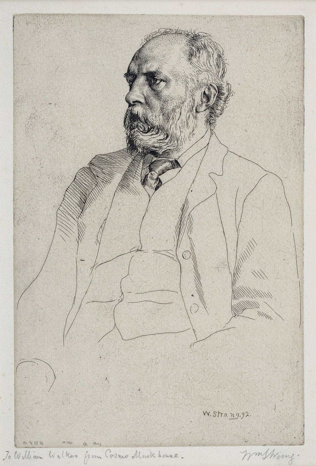 (WS.199) Etching of the poet and critic William Cosmo Monkhouse. Signed by the artist. Signed and dedicated by the sitter. 9x5.75 inches. Offered for sale by Abbott & Holder in July 2019.